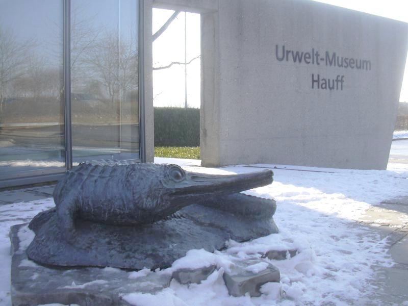 Entrance area of the prehistoric museum in Holzmaden, Germany